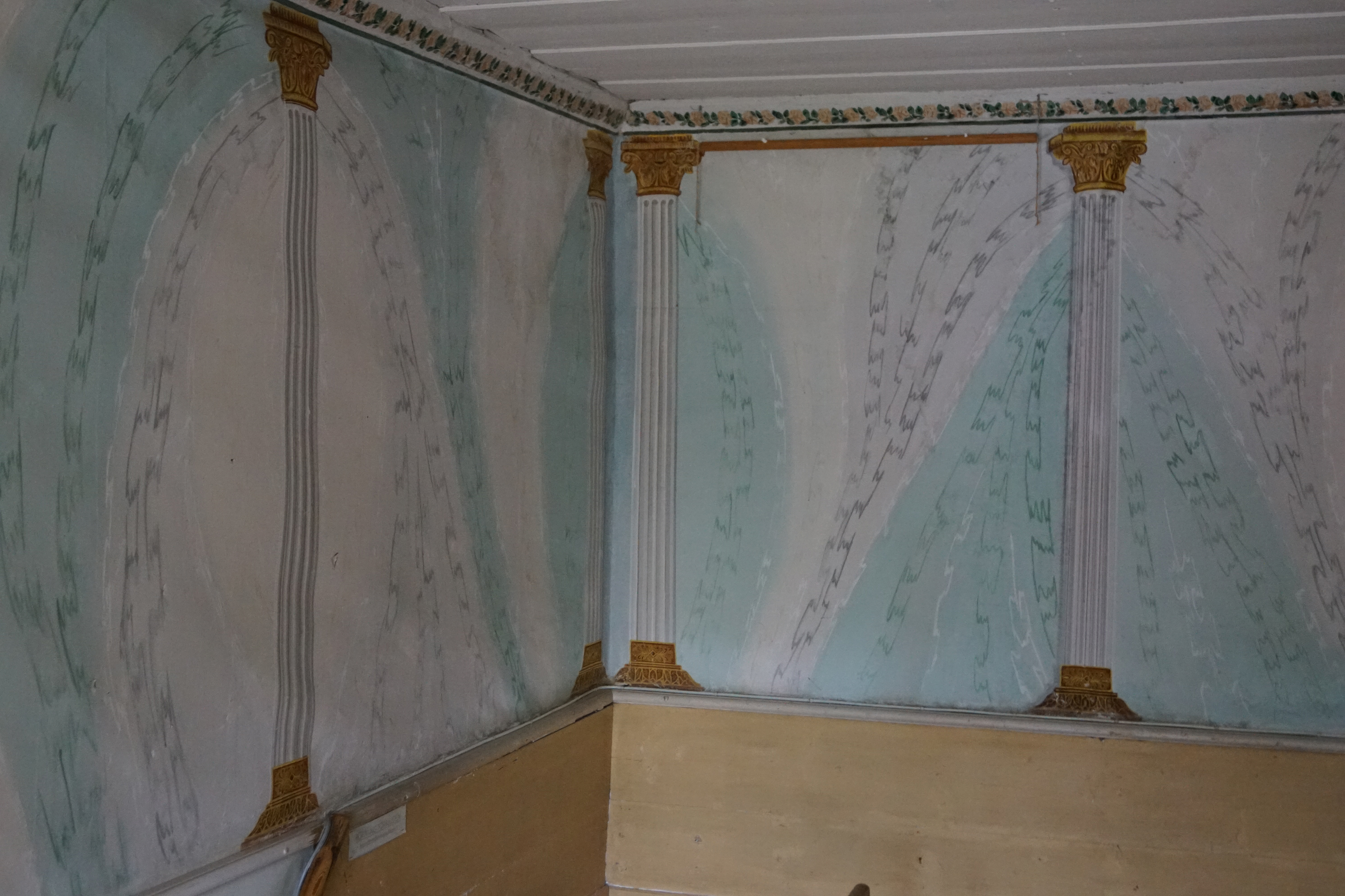 Interior from the hälsingegård (farm of Hälsingland province) Hans-Anders (Träslottet, the Wooden Castle) in Arbrå socken.